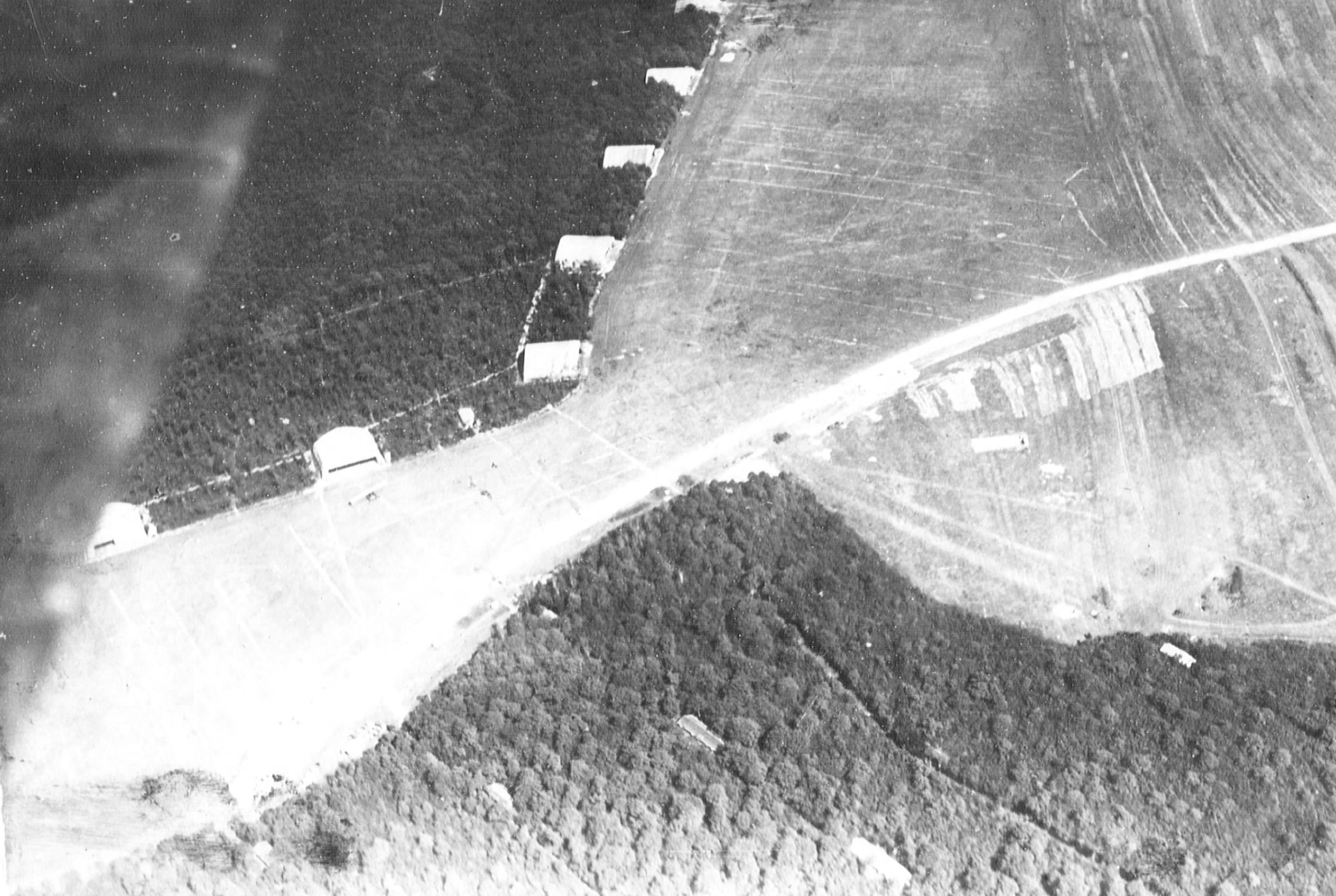 Epiez Aerodrome, France during World War I